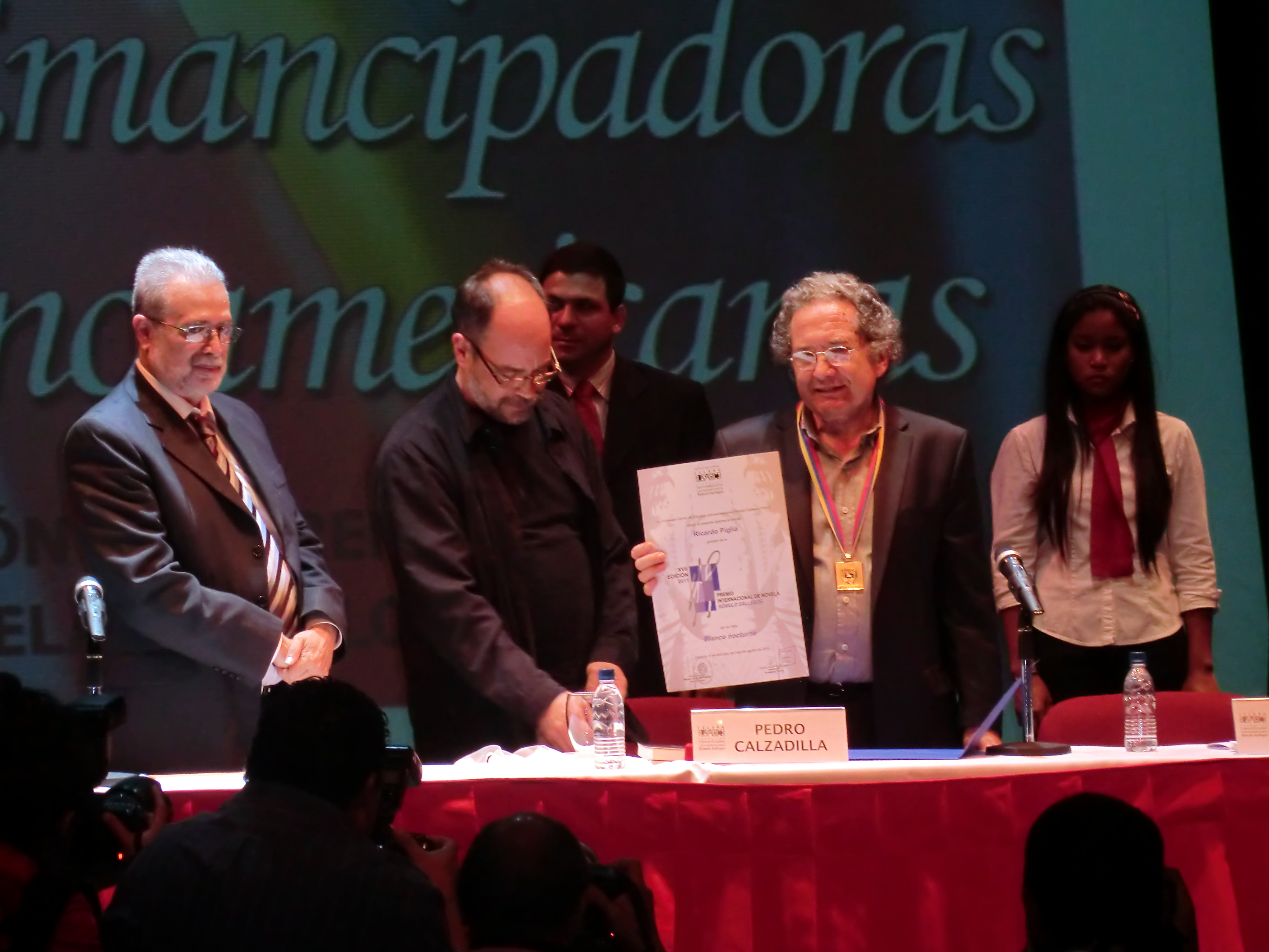 Ricardo Piglia, argentine writer. Winner of the Rómulo Gallegos Prize in 2011.